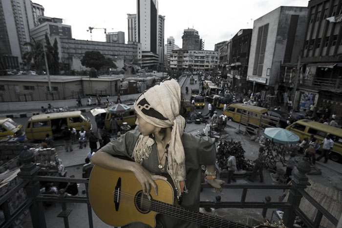 Photoshoot for Soundcity Magazine with Nigerian musician Nneka, whose socially-conscious music flies in the face of the R&B/hip-hop music so popular in contemporary Africa today.